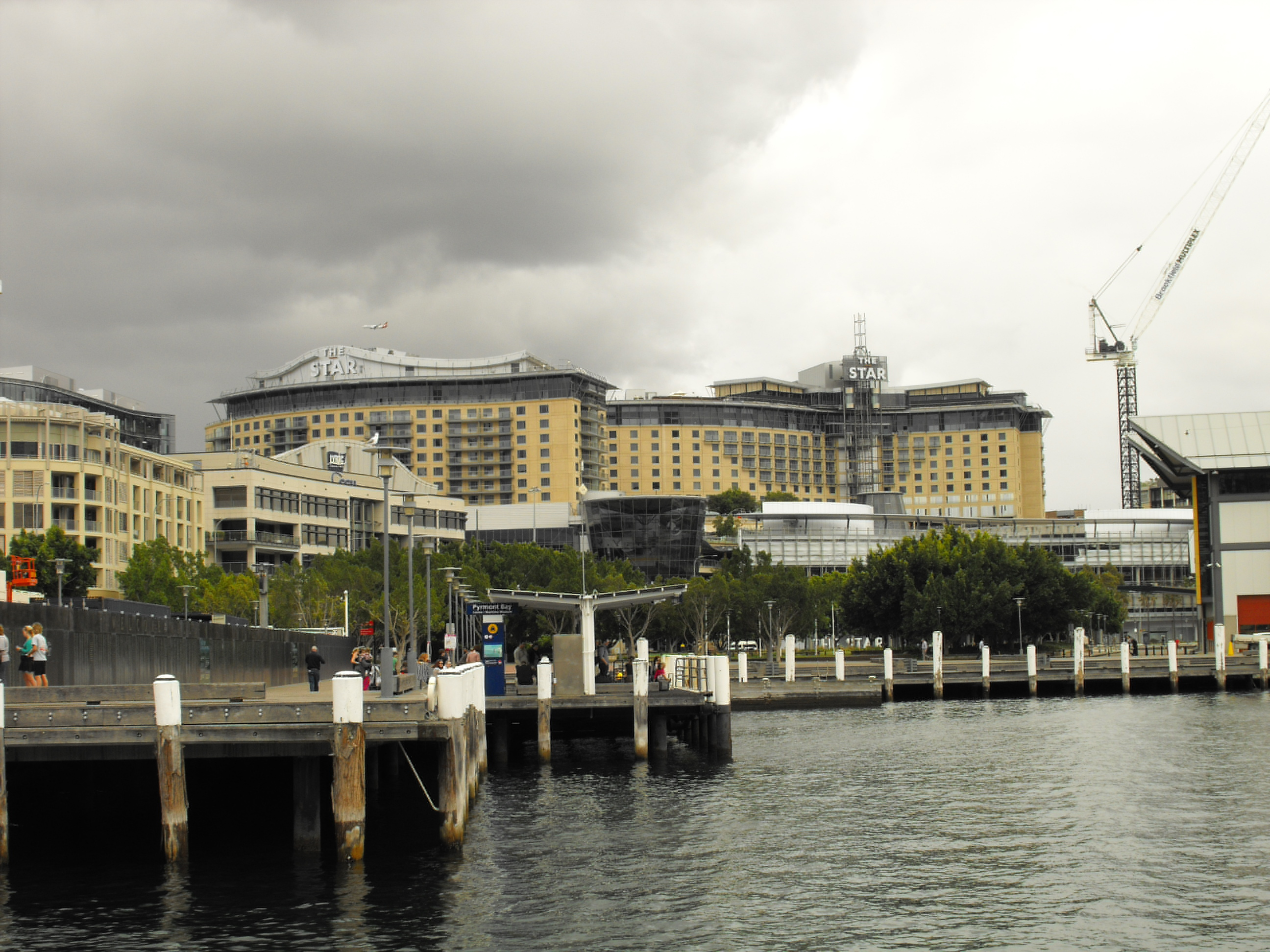 The Star Casino in Darling Harbour, shortly after its rebranding from Star City Casino